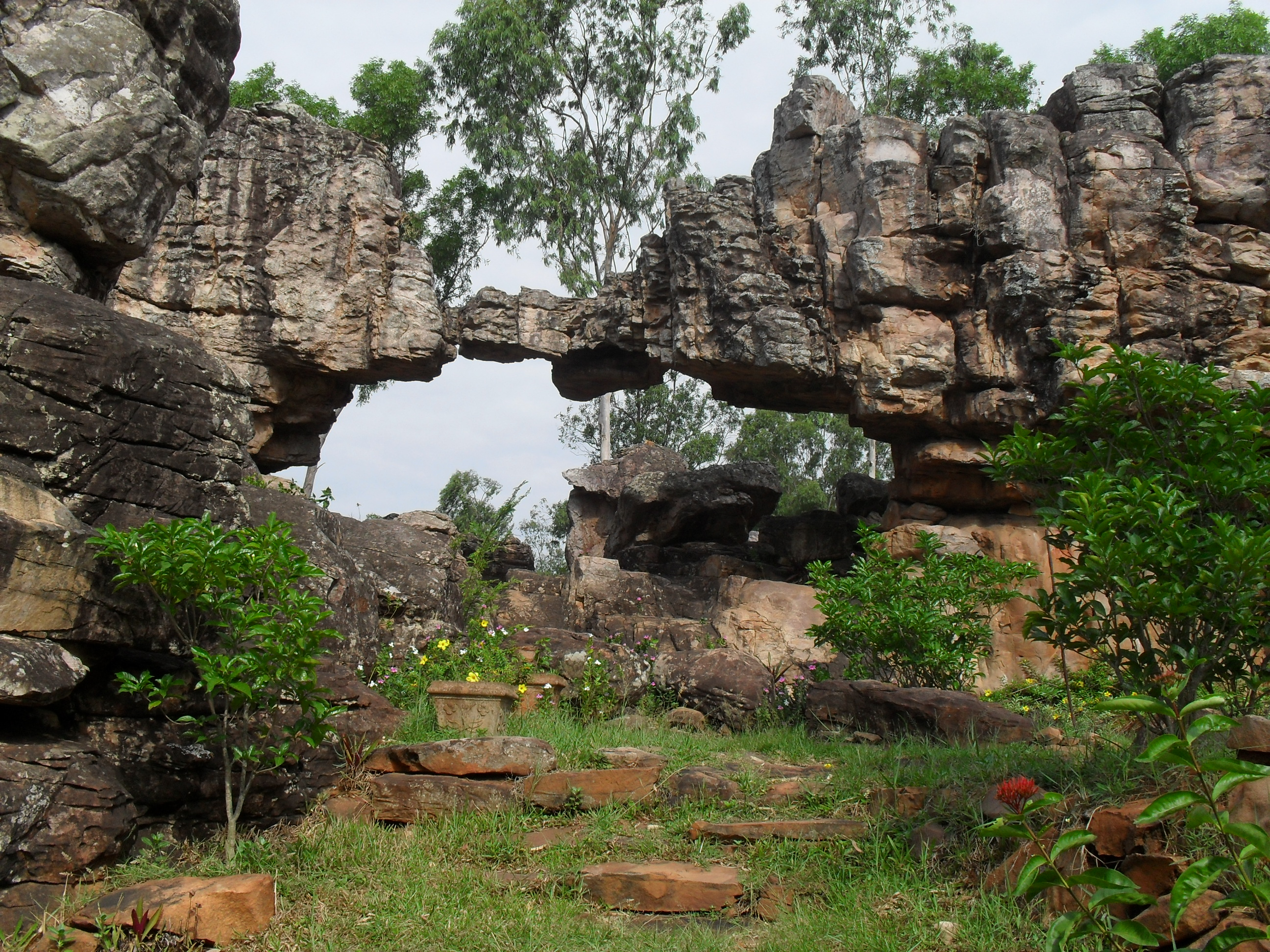 Own Work